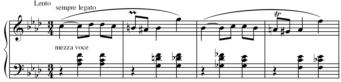 Mazurka in F minor Op. 69 No 4 - mazurka for piano in F minor key, last piece wrote by Polish pianist, composer and music teacher Fryderyk Franciszek Chopin (1810-1849).